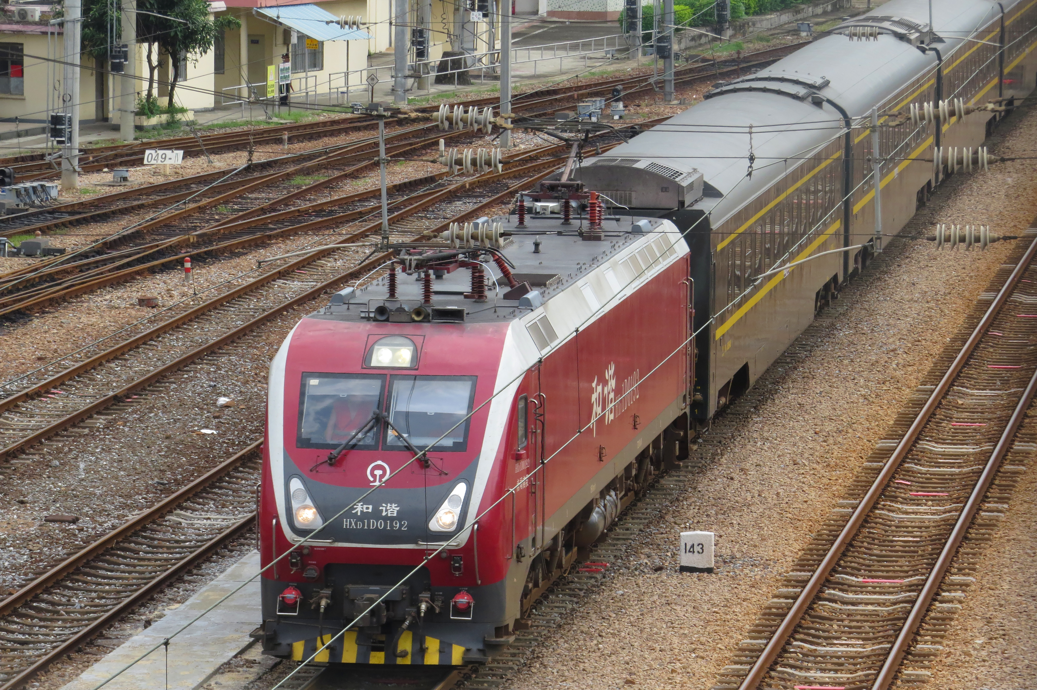 Z108 to Beijing West. Sometimes K106, another through train on Beijing-Kowloon Railway, would use a HXD3D instead from Shenzhen to Ganzhou or Nanchang.